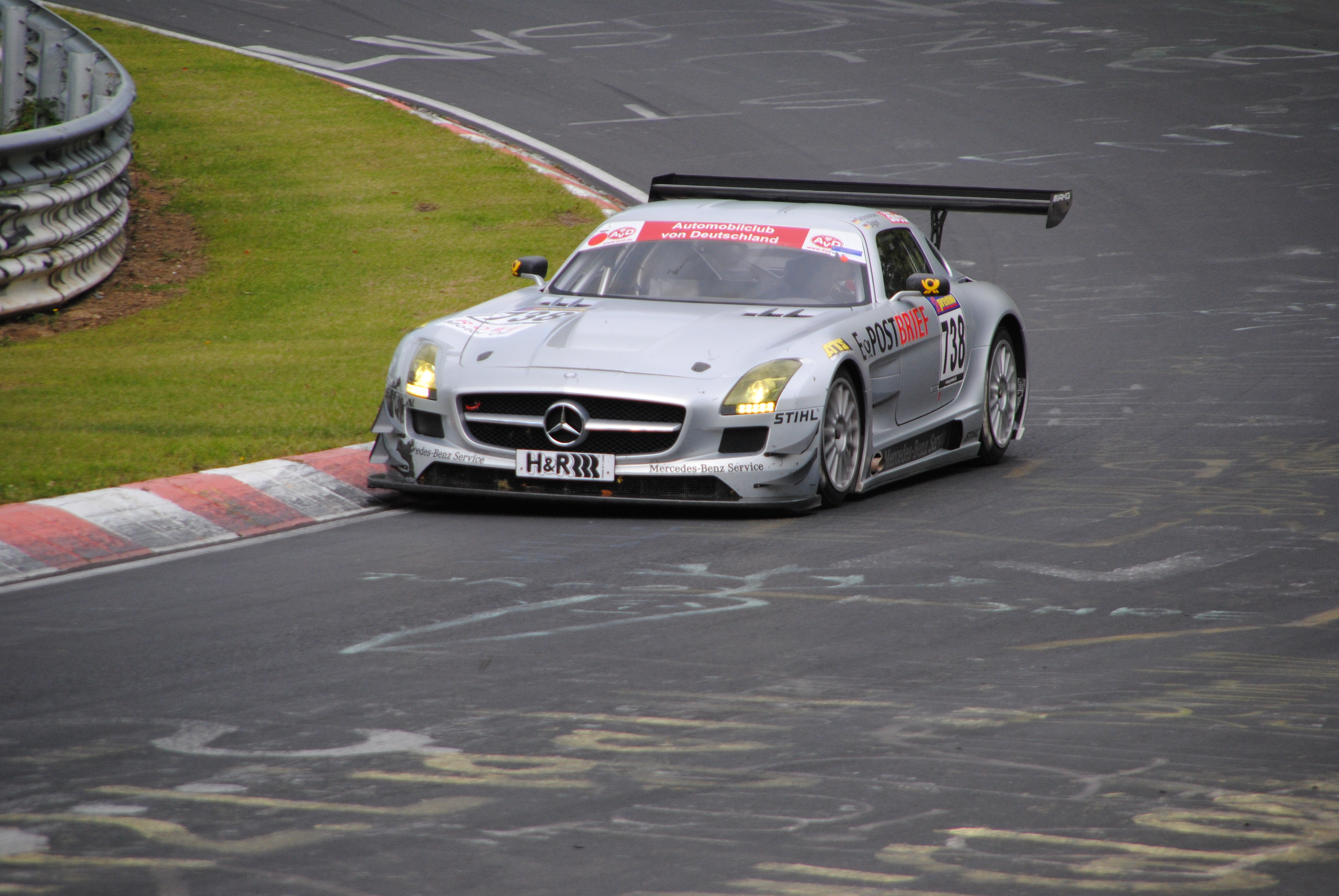 Mercedes-Benz SLS AMG GT3 on Nürburgring-Nordschleife at 8th Race